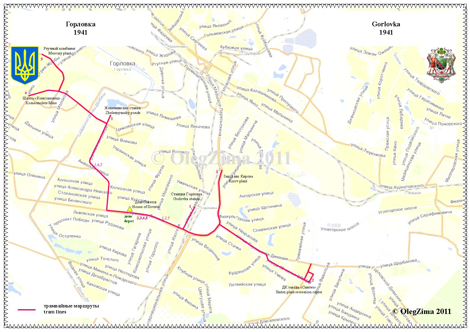 map of transport of Gorlovka (Horlivka) city at 1941